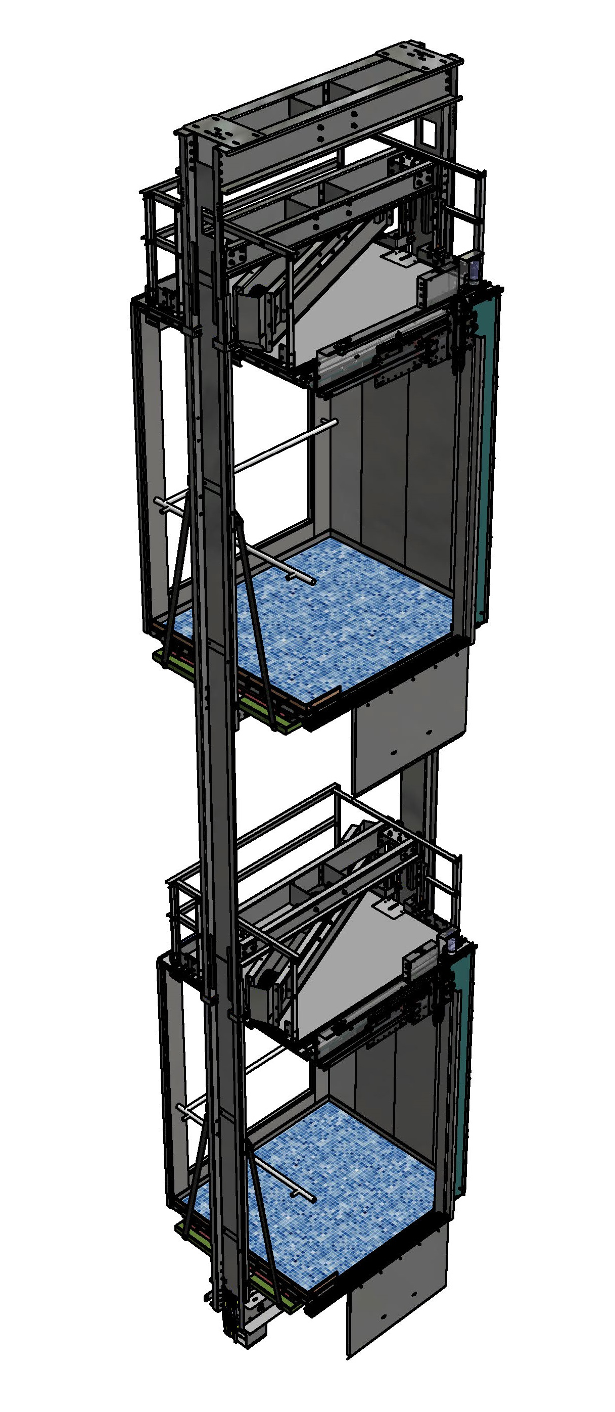 Double-deck VEK elevator for Global Lighthouse project in Yekaterinburg (TV Tower)